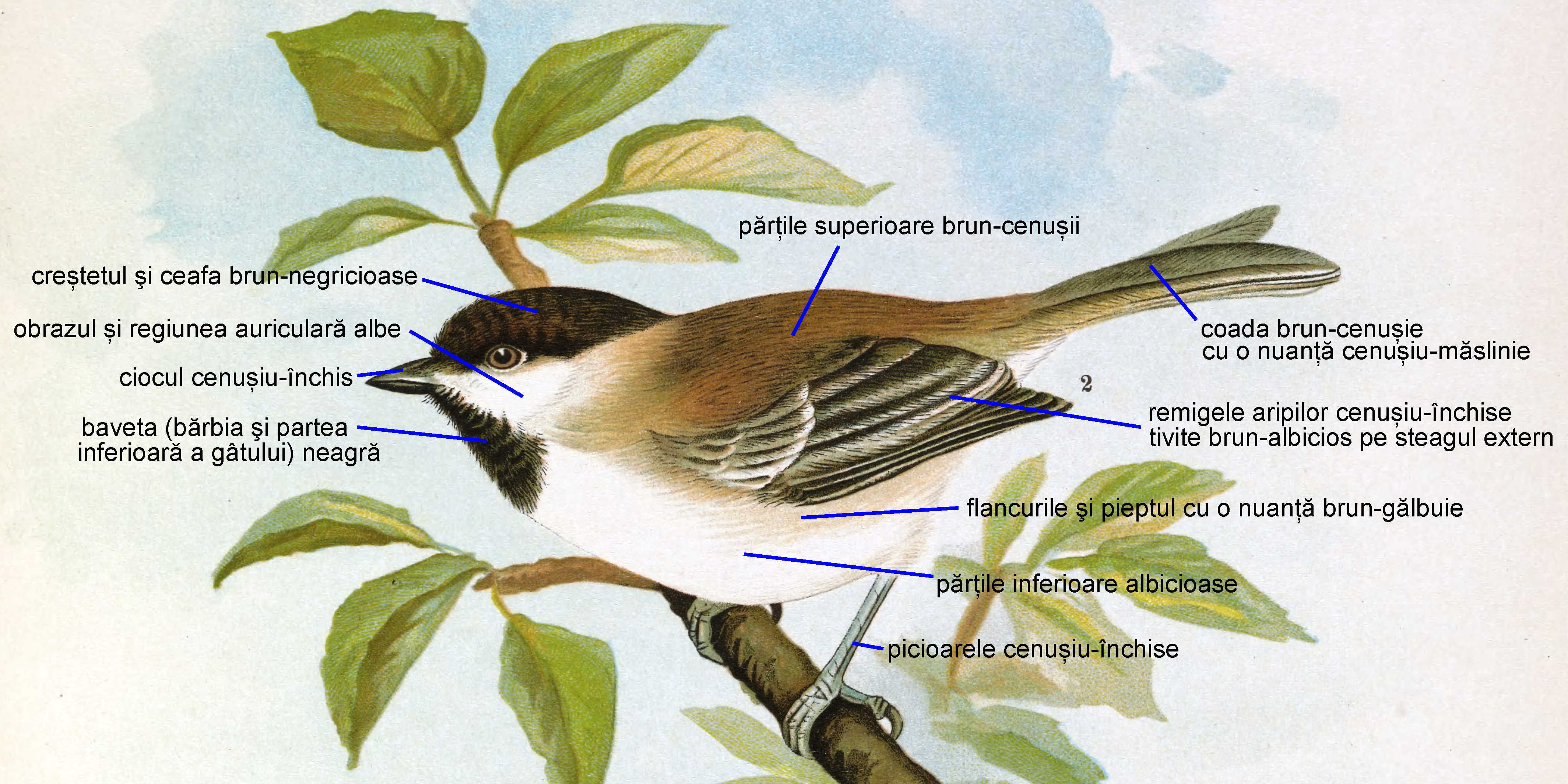 Parus lugubris Naumann ro